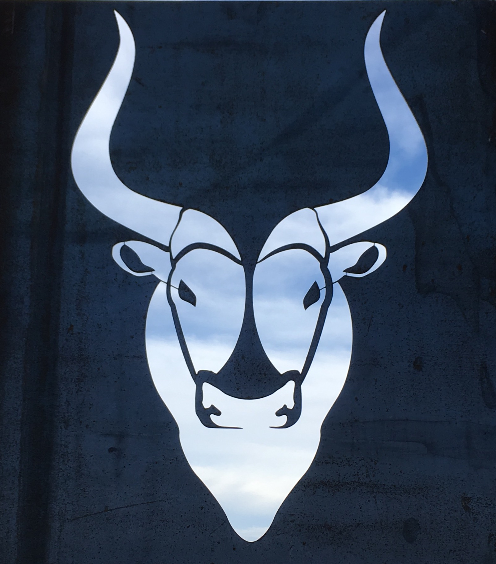 Superstition Meadery's steel sign outside their production facility. The sign is a cut out. The image was taken so the clouds in the background would show through.